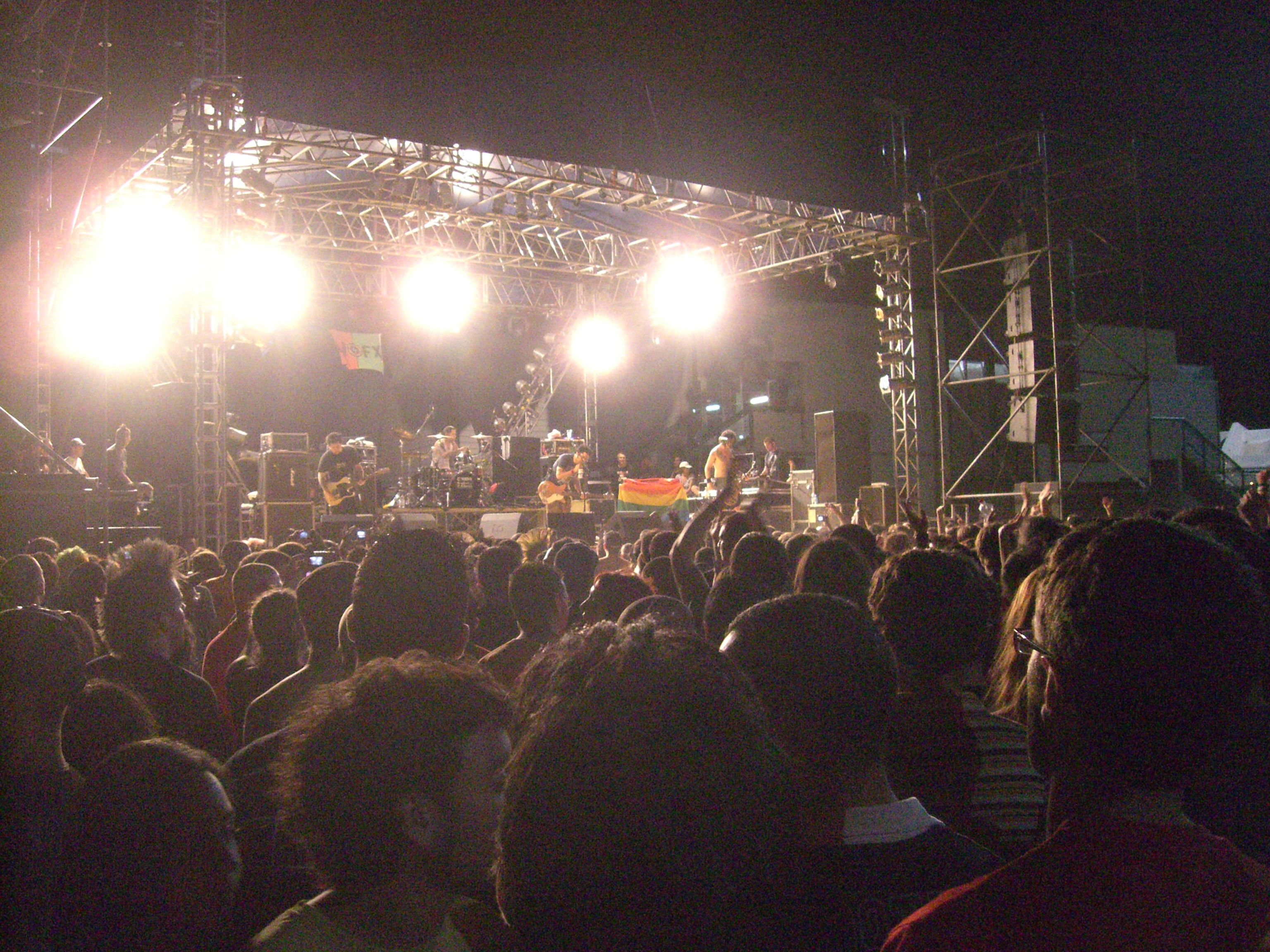 photo of american punk rock band NOFX, live in Cagliari.